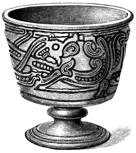 "Found in the huge double barrow in which the heathen king Gorm the Old, founder of the Danish monarchy (c. 900-936), and his Christian wife Thyra, were buried side by side at Jelling at Jutland. [...] The cup is of silver, gilt inside, and ornamented with an old half mythological pattern of twisted snakes and fantastic animals."